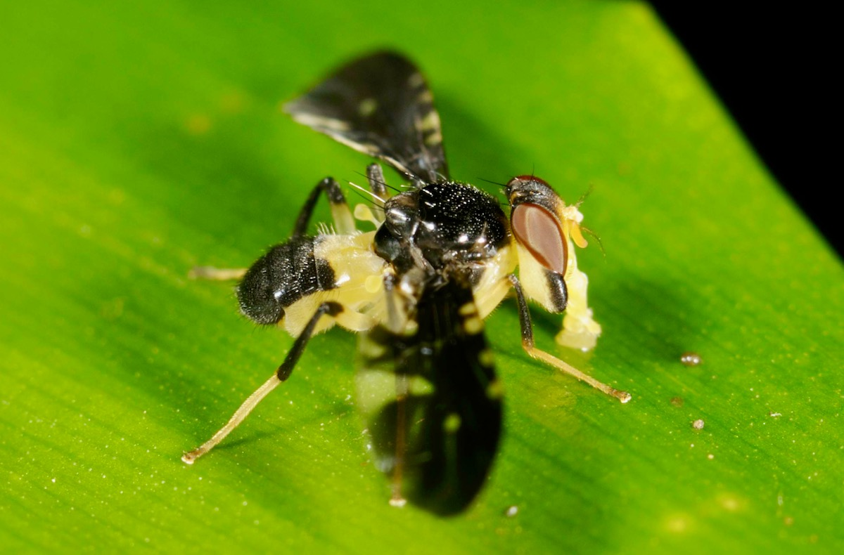 Adult Conopariella tibialis Hendel, 1914 performing wing display behaviour, which is part of a mating ritual common in Signal Flies; Tanzania; with permission: photographer Stephen A. Marshall.